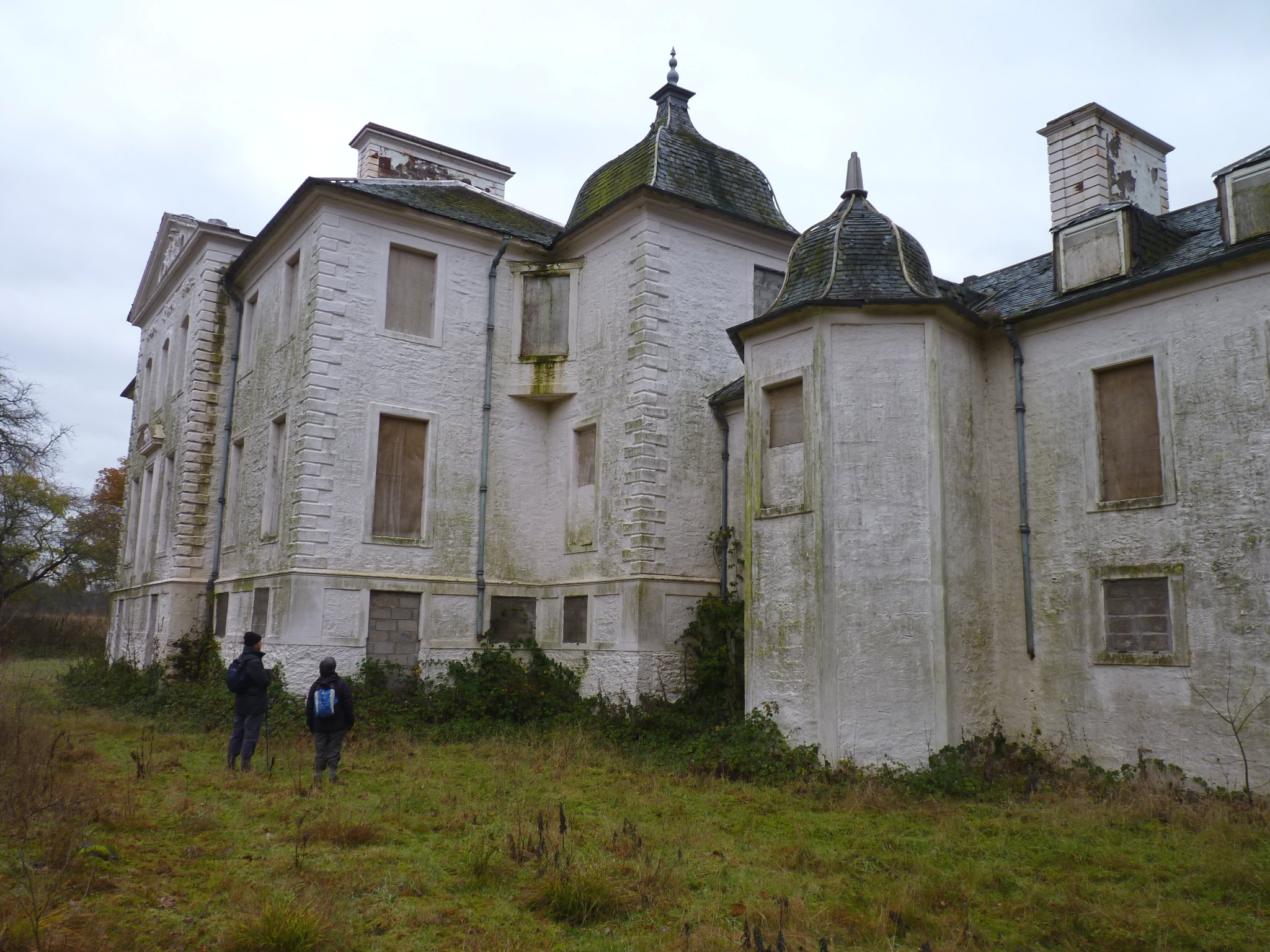 North side of Gray House